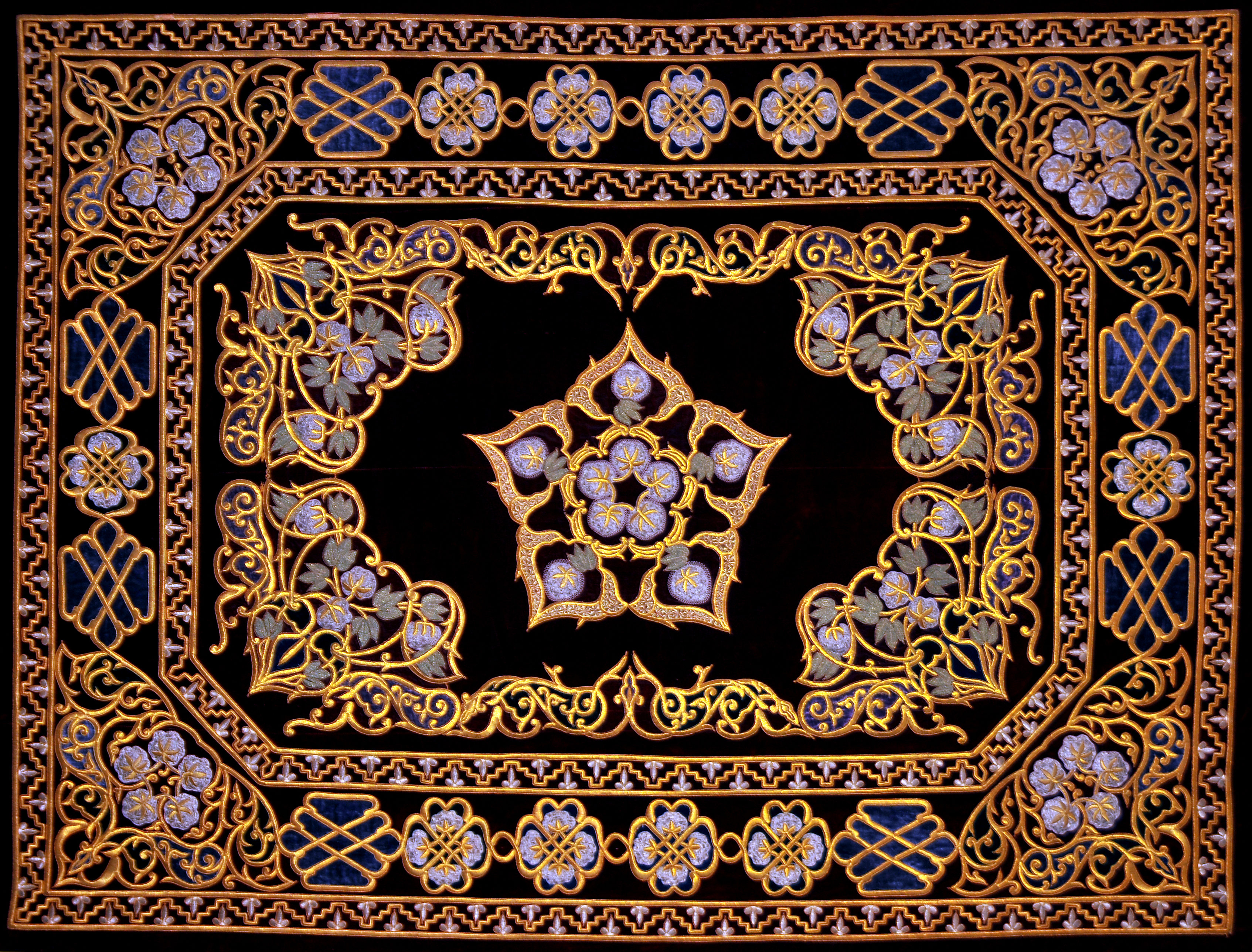 Carpet of the collection of Museum of Applied Arts. Tashkent, Uzbekistan